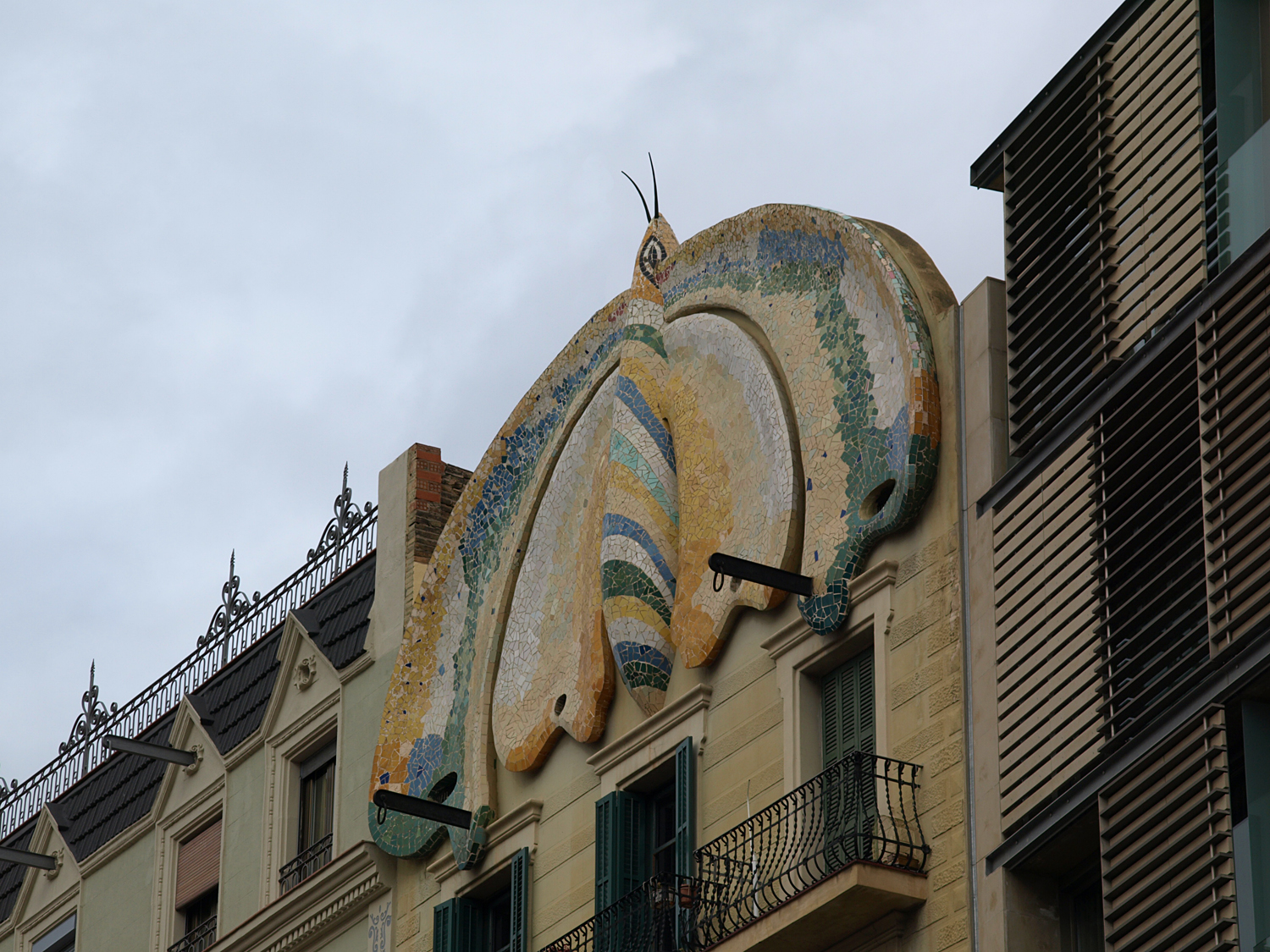 Casa Fajol - Catalan Modernisme (1912, Josep Graner i Prat)